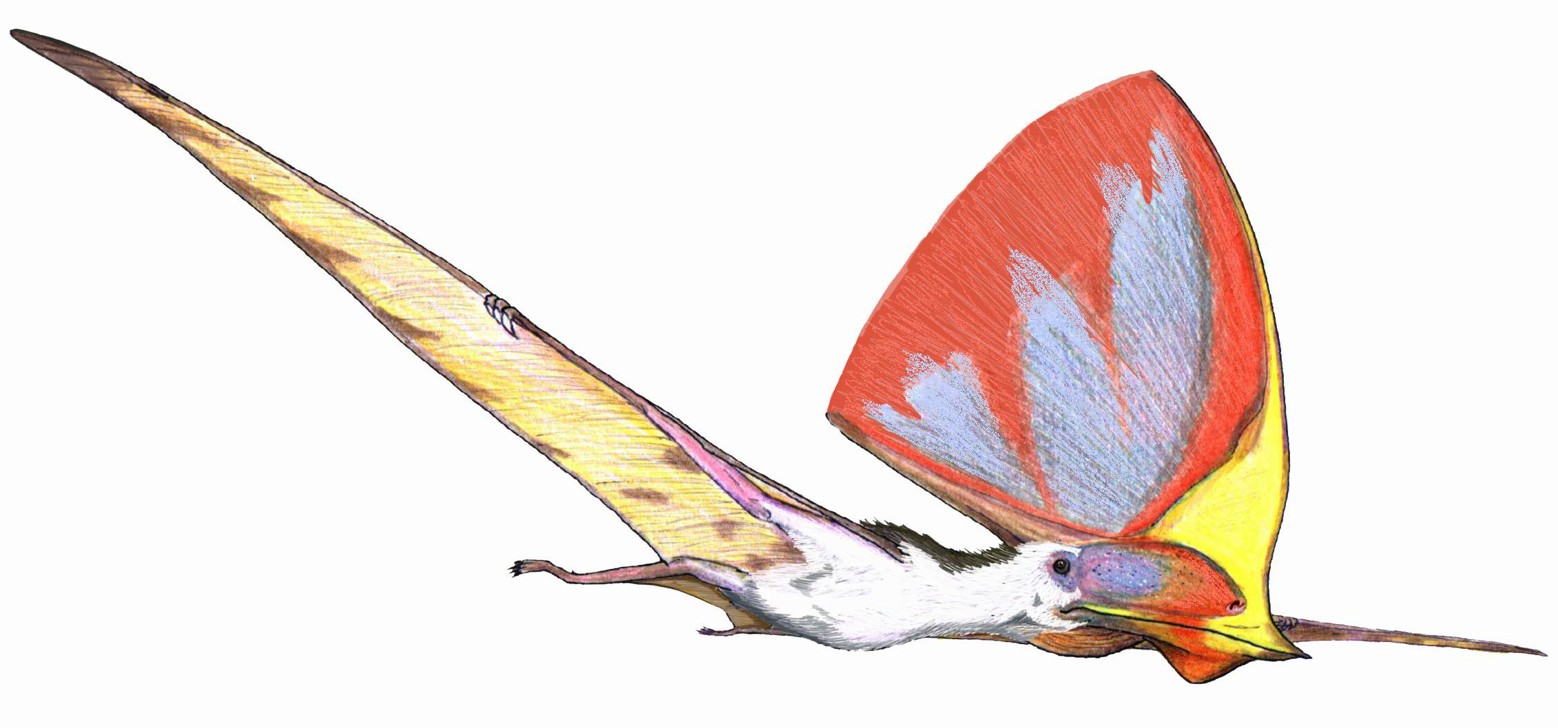 Tupandactylus imperator (formerly classified as Tapejara imperator).